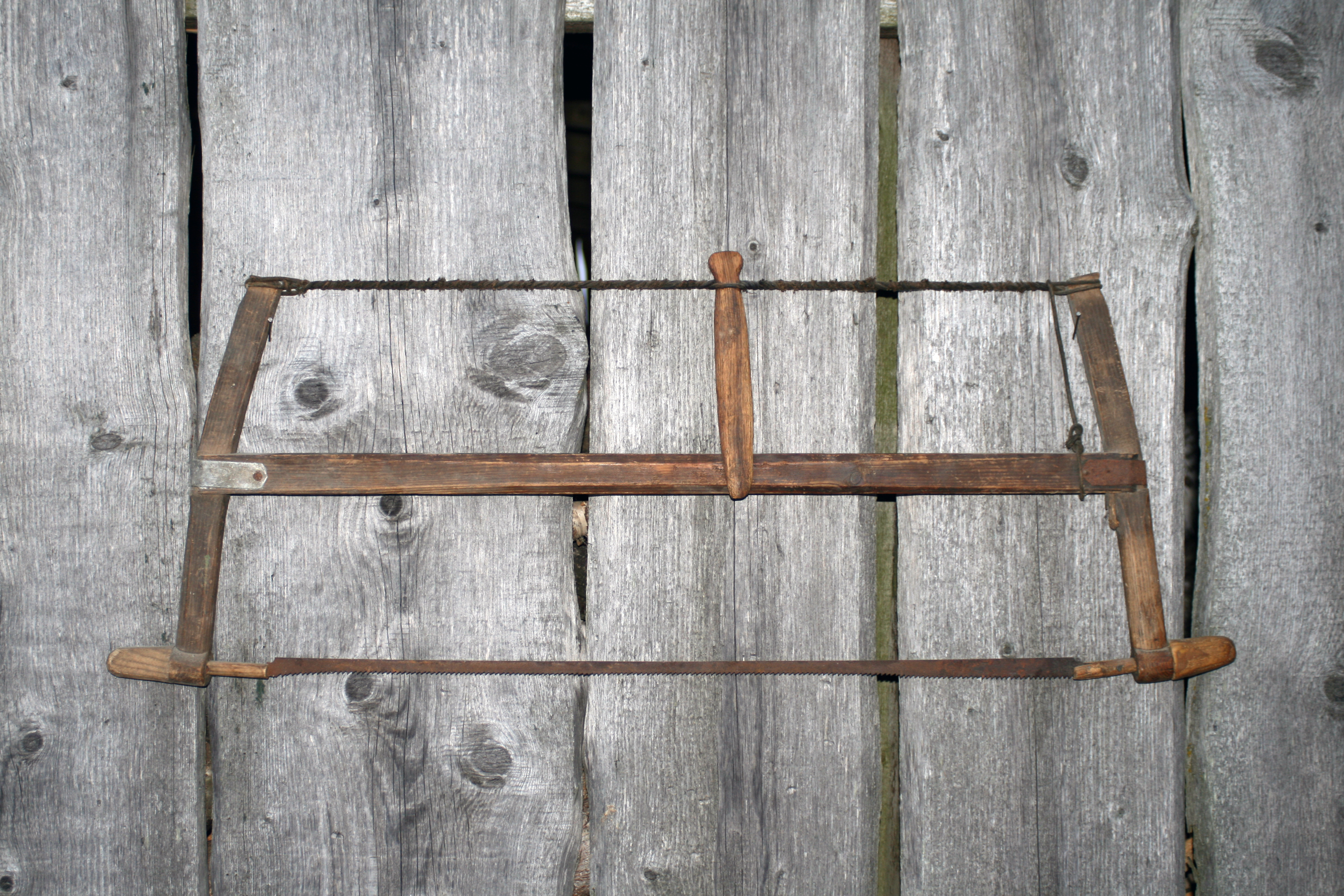 Saw